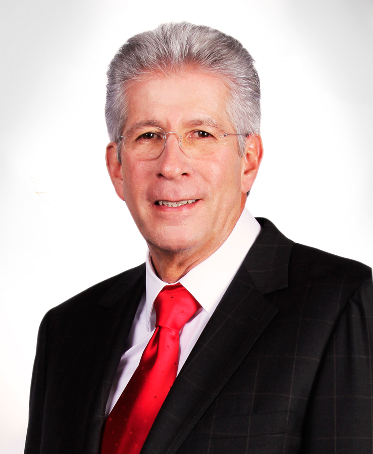 Gerardo Ruiz Esparza. Secretario de Comunicaciones y Transportes. Gobierno del presidente Enrique Peña Nieto